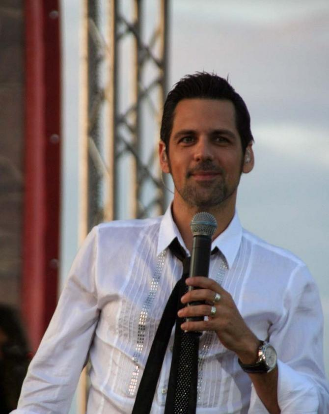 Stefan Banica Jr. at a concert.